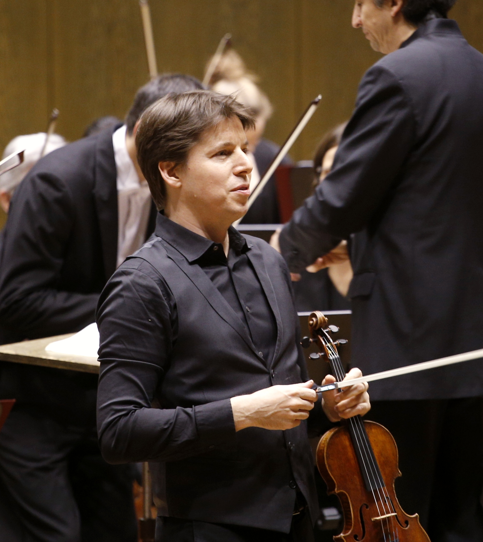 Joshua Bell in Leipzig (2016)